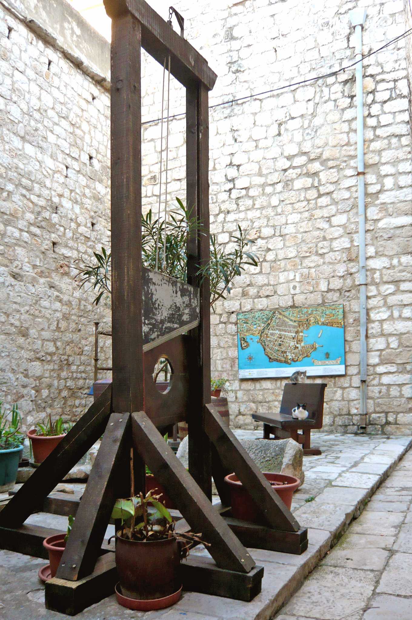 Replica of guillotine at Od Pustijerne street. Dubrovnik, Dalmatia, Croatia